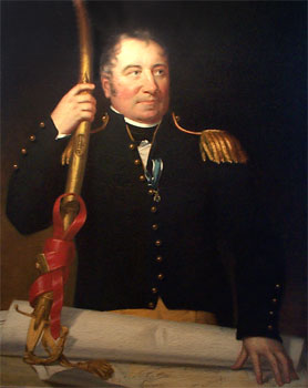 John Stricker (1758-1825)